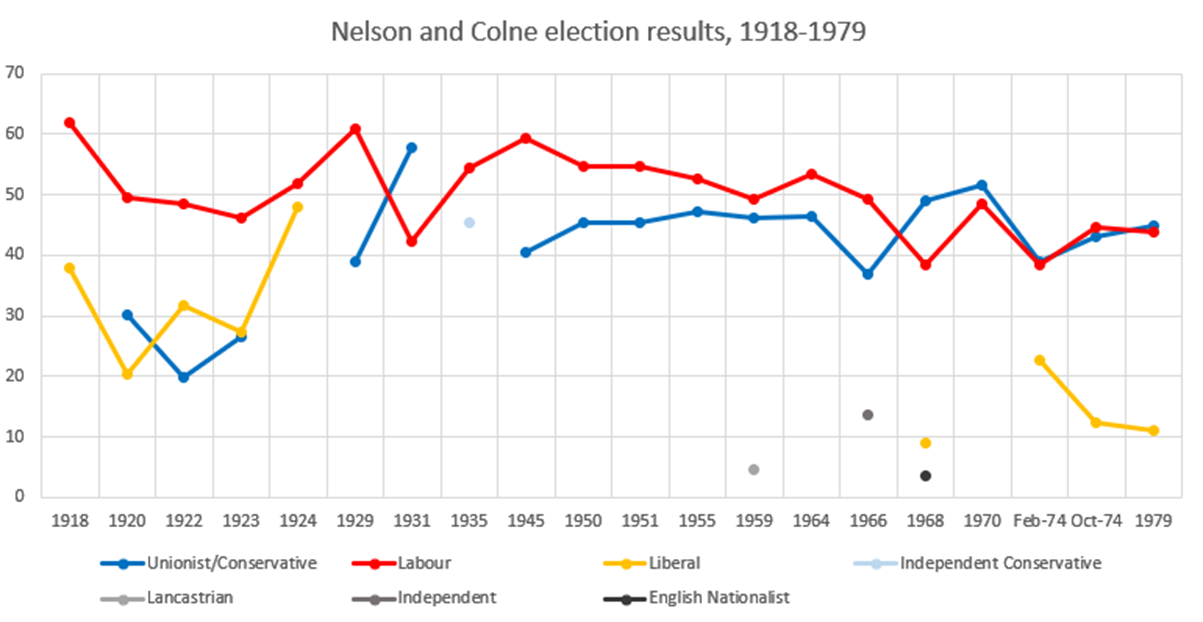 Graph showing election results for Nelson and Colne from 1918 to 1979.